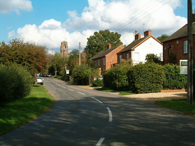 Filgrave. Filgrave village as viewed from the west end.